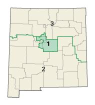 Image adapted from US fed gov't source Category:Congressional districts of New Mexico Category:New Mexico maps